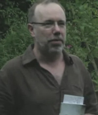 Picture of David Belbin